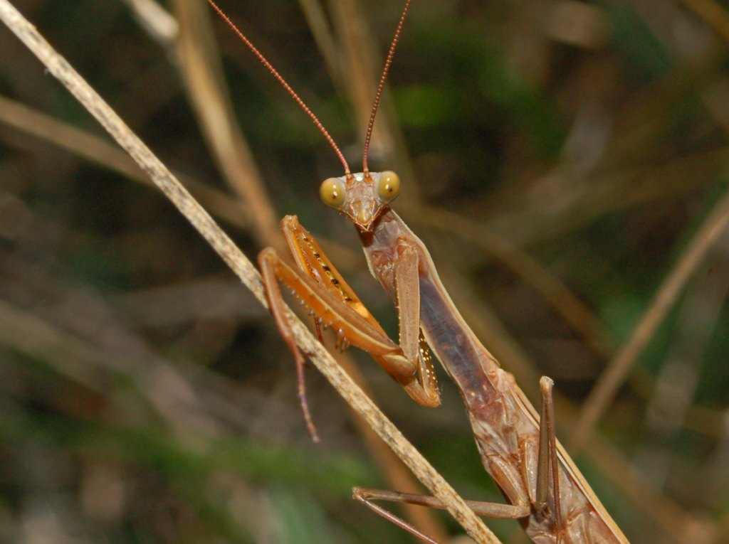 Mantis reli giosa . close up of a male